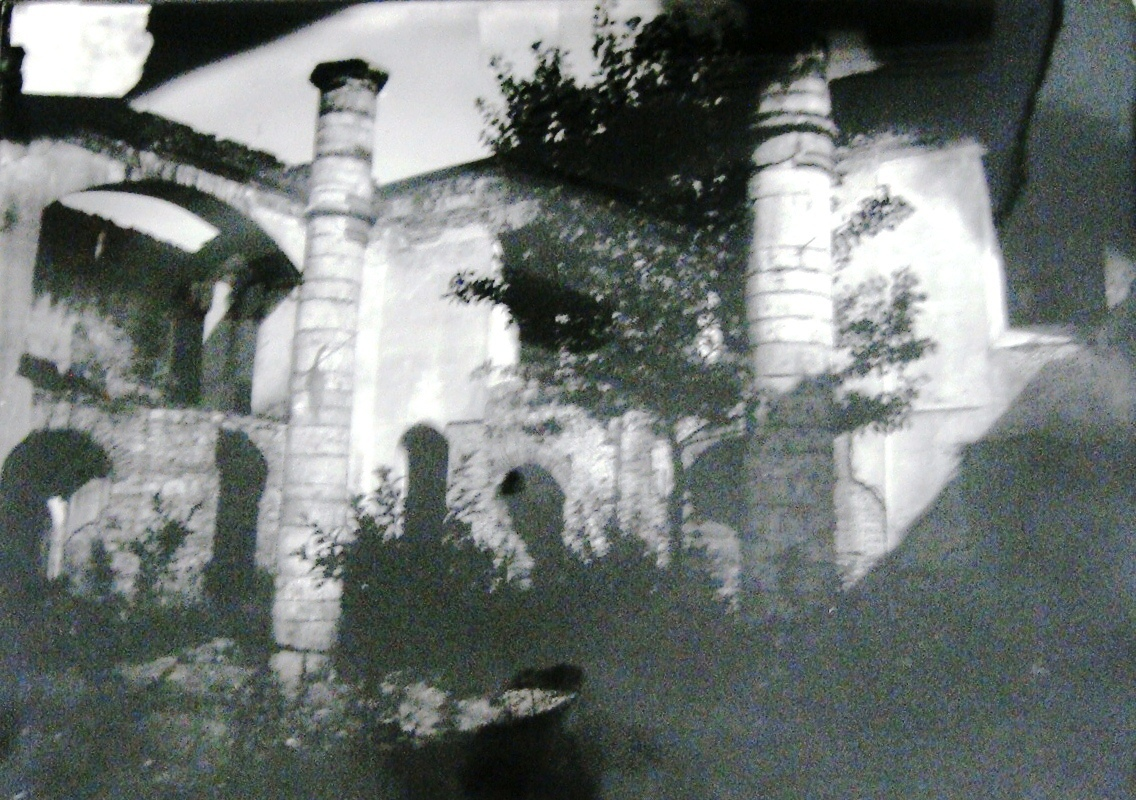 View of burned Jewish sunagogue "Kal Portugal" in Bitola, 1919-1929 This media file is produced by Wikipedian in Residence in Category:Wikipedian in Residence at DARM in 2016.